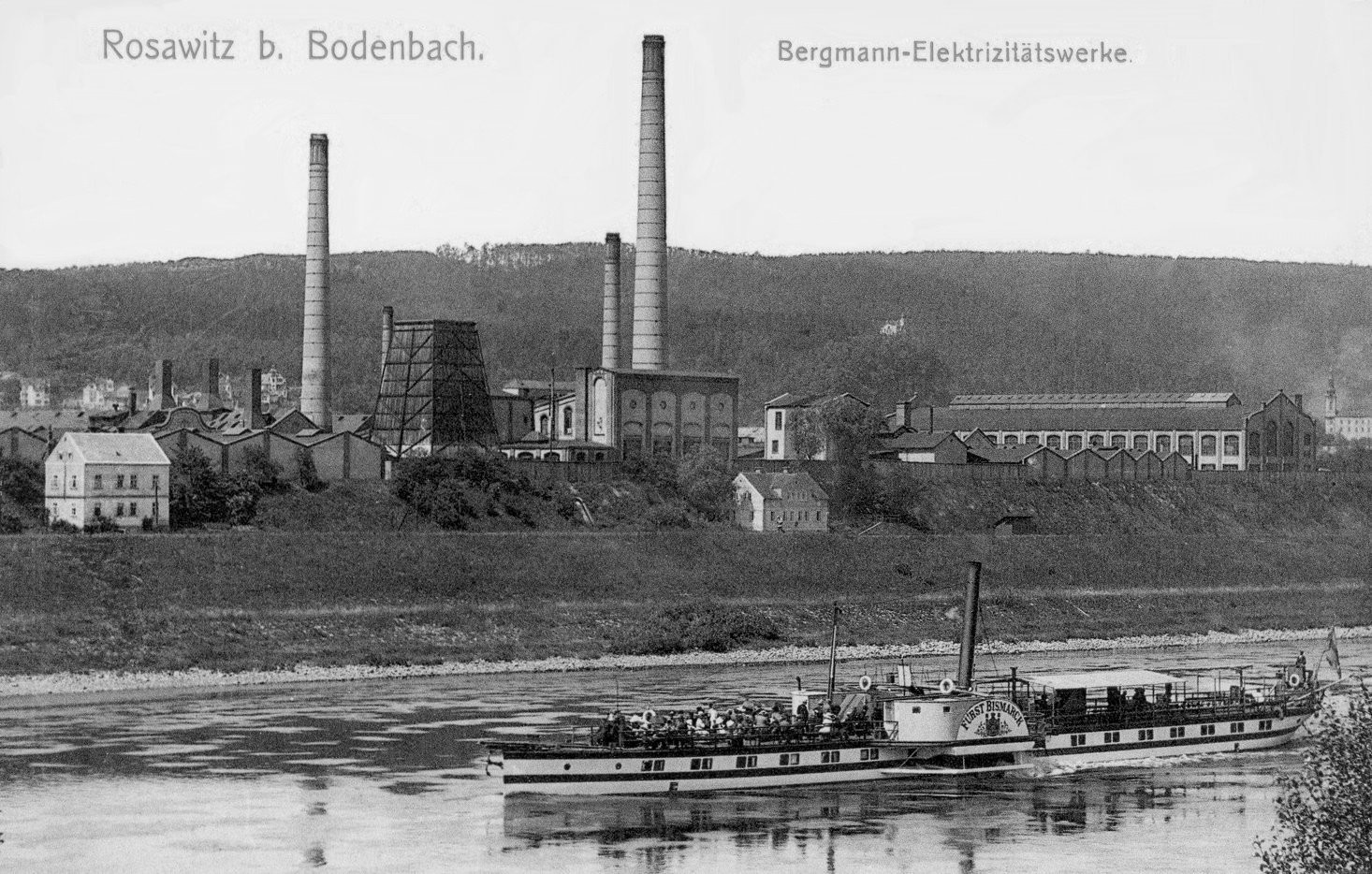 This postcard is from publisher Brück & Sohn in Meißen ( This postcard has a unique number 16282 and is available in a higher resolution at the publisher. This images was uploaded in a cooperation project between Wikipedians and the publisher.